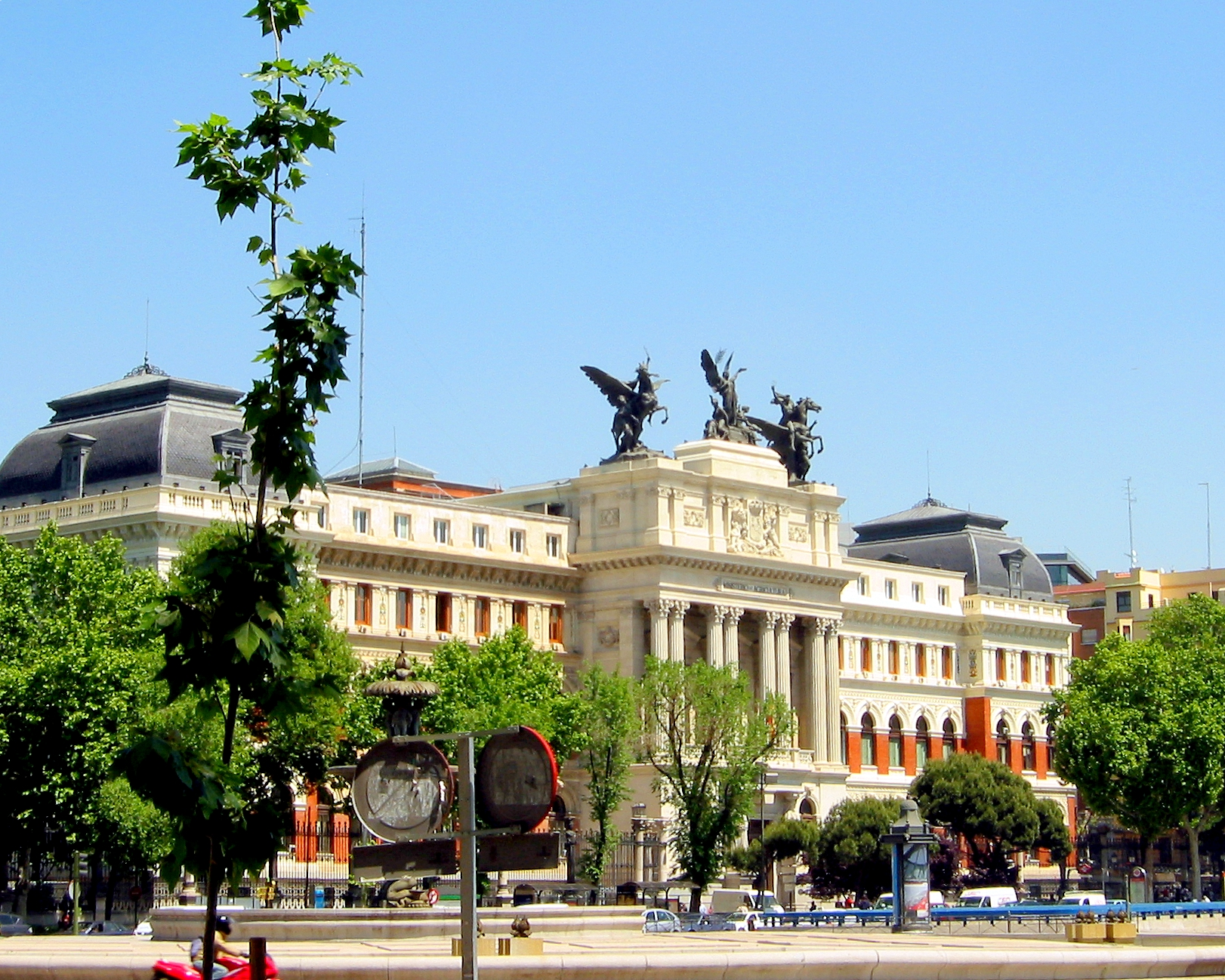 View of the Spanish Ministry of Agriculture, Fisheries and Food headquarters, in Madrid. Projected by architect Ricardo Velázquez Bosco in 1893 and built between 1893 and 1897 as a Ministry of Public Works building.